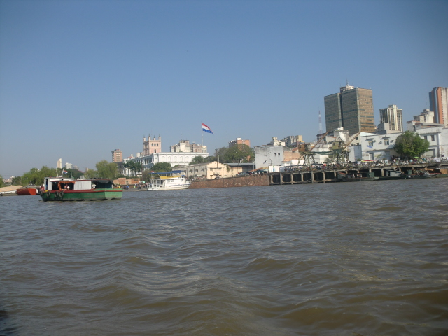 Paraguay River in Asunción